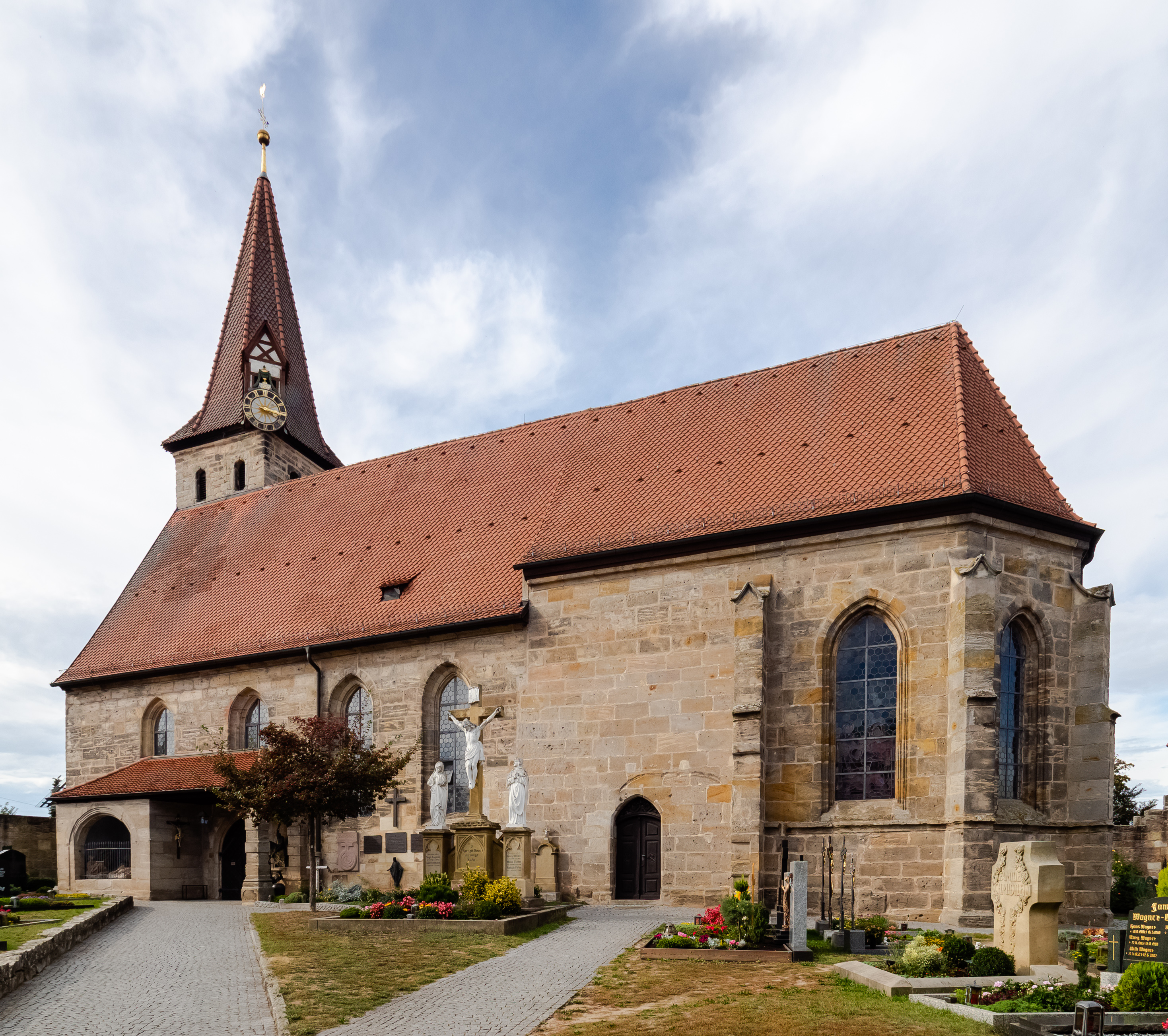 Catholic parish church St. Georg in Effeltrich